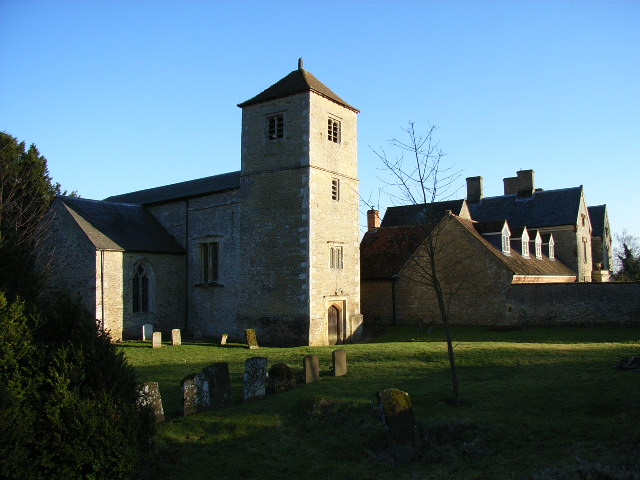 Church and priory, Chetwode, Bucks